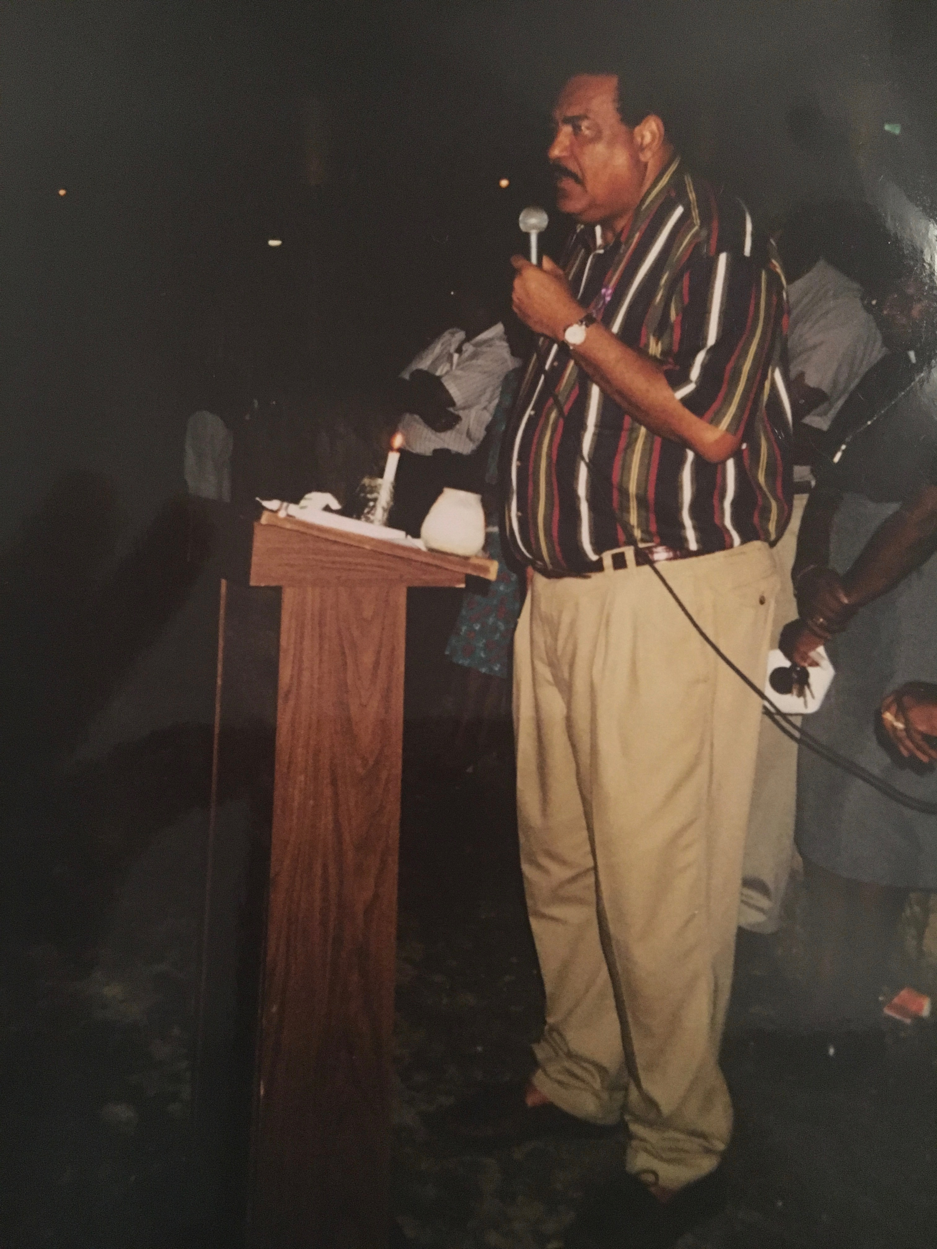 Former Prime Minister Honourable Lester B. Bird at a Candle Light Vigil in support of the fight against domestic violence.